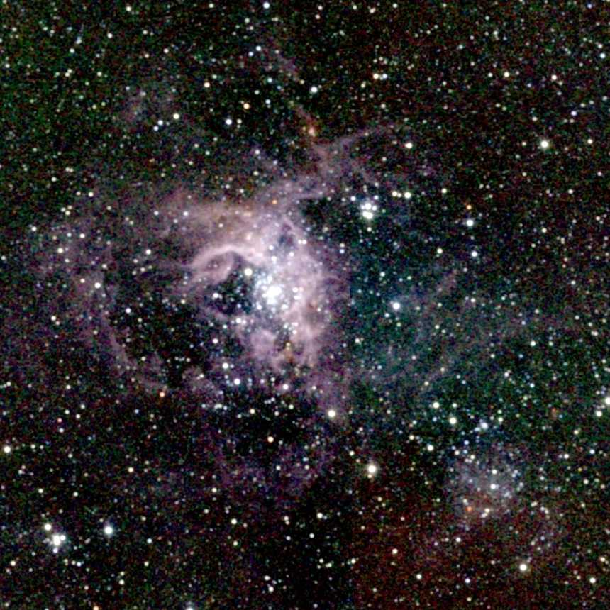 Atlas Image mosaic of the Tarantula Nebula (also known as 30 Doradus or NGC 2070). This nebula, in the Large Magellanic Cloud, is the closest example to us of a giant ionized hydrogen (H II) region, covering several hundred parsecs in diameter. The closest analog in our Milky Way Galaxy is the H II region NGC 3603. 30 Doradus serves as a "Rosetta Stone" for massive starbursts of this kind in galaxies at larger distances from us. Clusters of hundreds of young, massive O and B stars, particularly the dense central "super star" cluster, R136, provide the ultraviolet photons which ionize and photoevaporate the large filamentary cloud. A number of other stellar populations, including red supergiants and Wolf-Rayet stars, coexist in 30 Doradus. Detailed studies in the optical of the nebula and its stellar contents shows a complex history of recent star formation. In the near-infrared, pre-main-sequence objects are also found, particularly along the Ks-bright molecular hydrogen (H2) line-emitting filaments in the nebula's periphery, which can be seen in the 2MASS image. What emerges is a scenario of new generations of stars triggered by the energy input from the massive stellar clusters, which is likely a characteristic picture for star-forming regions of this scale in galaxies.